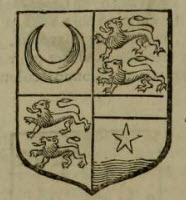 Arms of Jean-Jaques de Mesmes, comte d'Avaux (d. 1688)